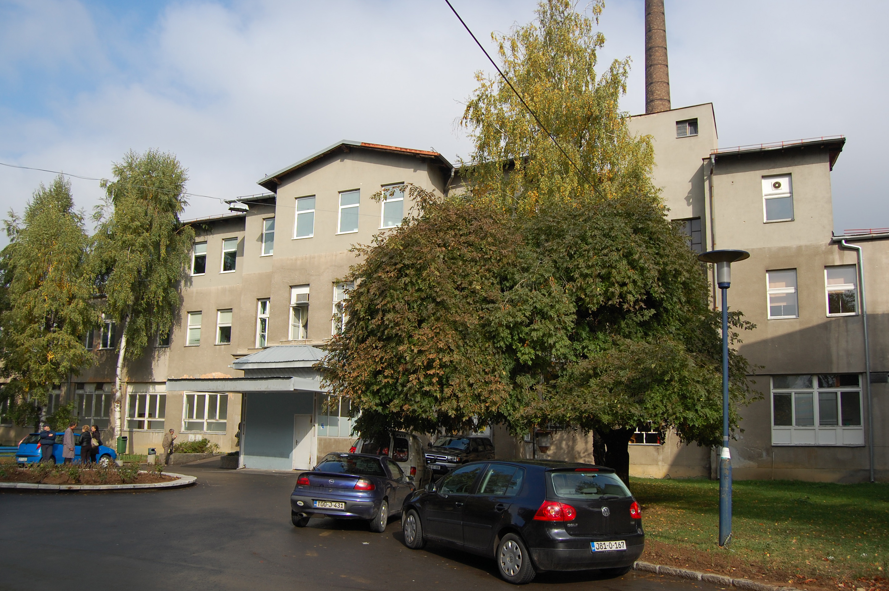 Hospital Koševo, Sarajevo